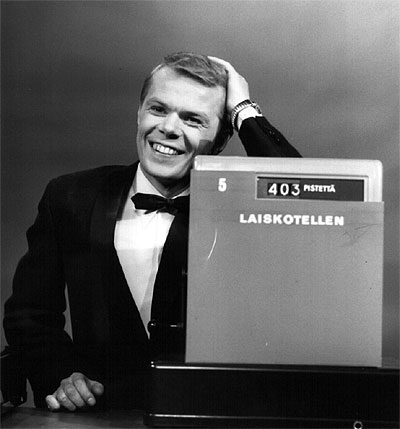 Lasse Mårtenson after winning the Finnish national final for the Eurovision Song Contest 1964 with the song "Laiskotellen", showing his score of 403 points.